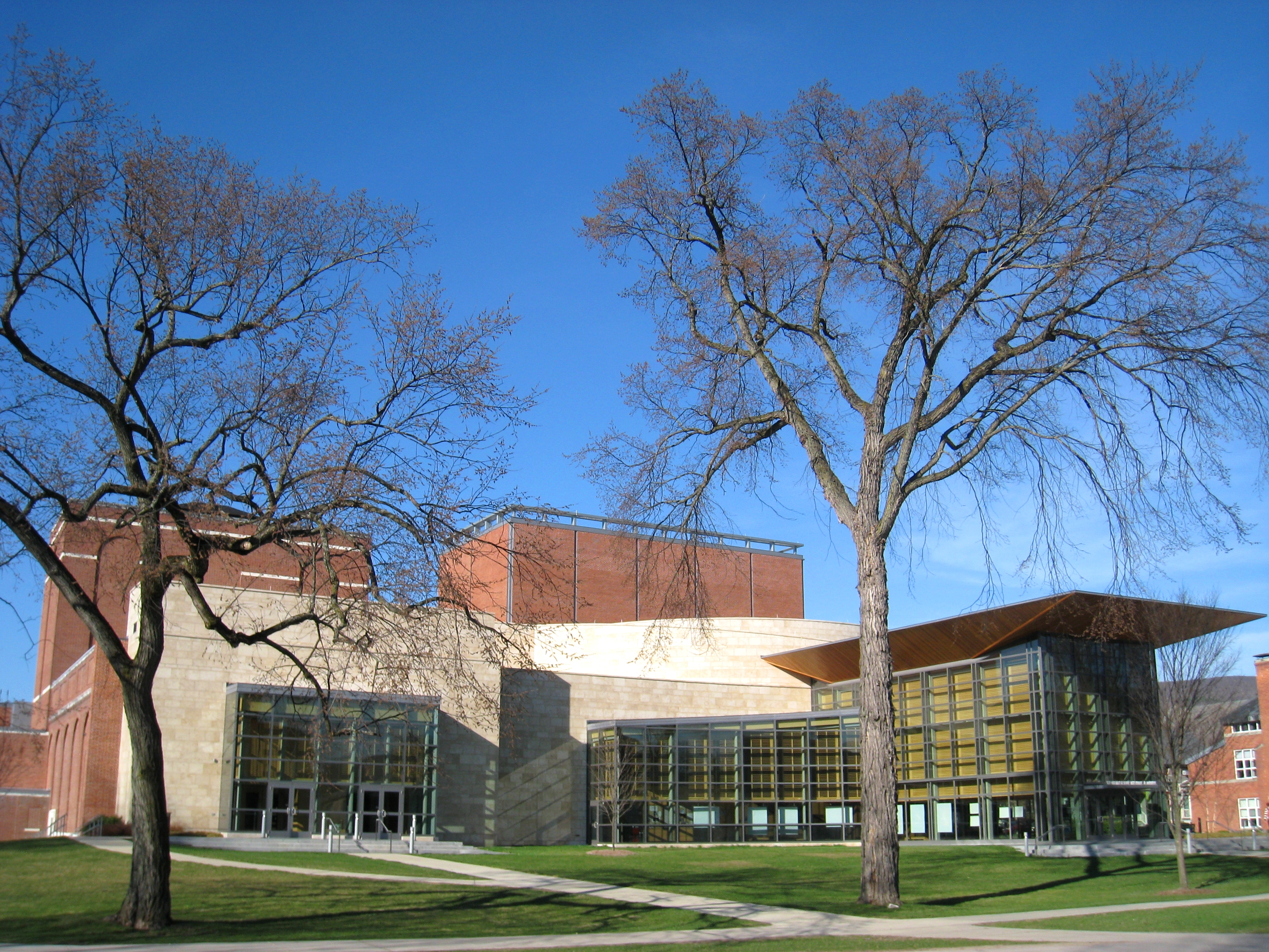 Williams College - Class of '62 Center for Theatre and Dance. Williamstown, Massachusetts, USA. Architect: William Rawn Associates, according to Williams College website [1].